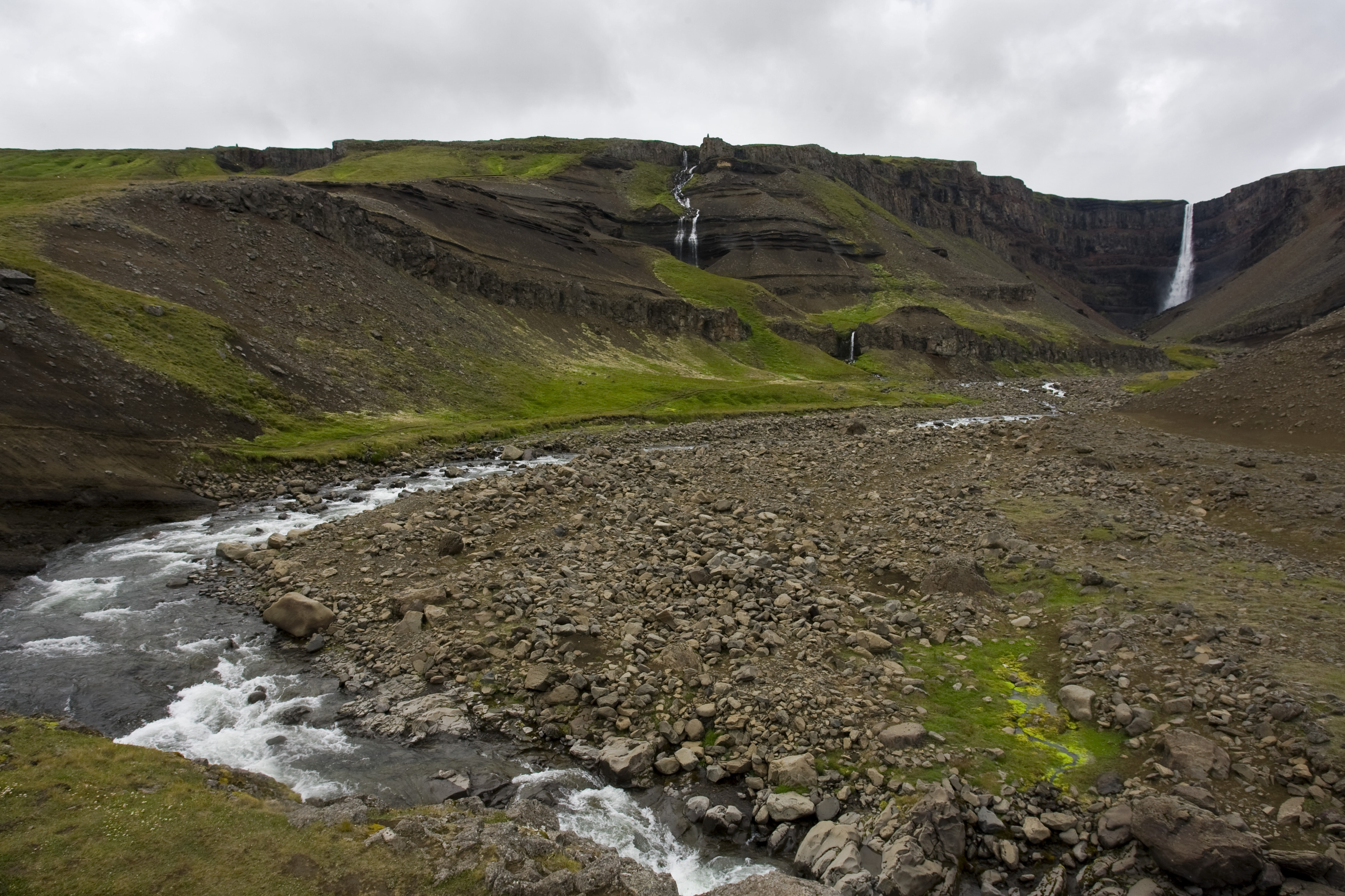 Hengifoss, Fljótsdalur, Iceland